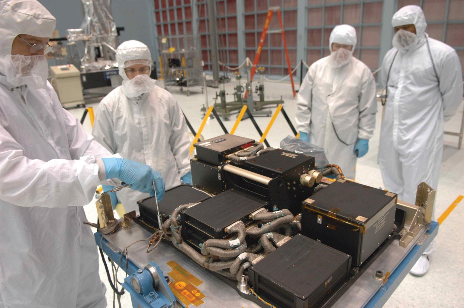 Technicians prepare the replacement SI C&DH for testing in a large clean room at the Goddard Space Flight Center.